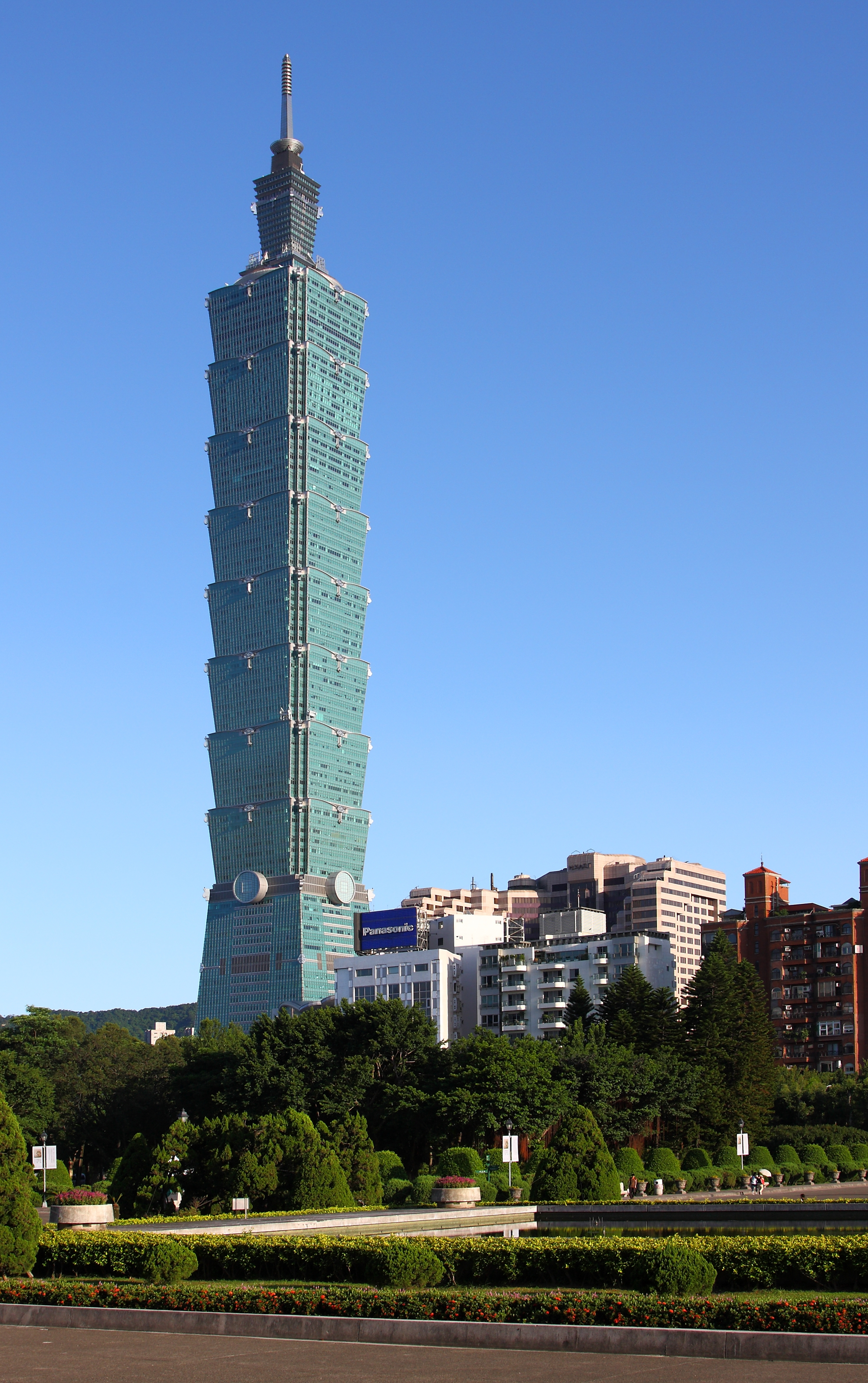 Taipei 101 as seen from Sun Yat-sen Memorial Hall in Taipei, Taiwan.